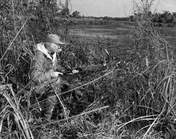 Persistent URL: Local call number: C015854 Title: Former professional baseball player Dazzy Vance duck hunting in Crystal River Date: January 1952 Physical descrip: 1 photoprint - b&w - 3 x 4 in. Series Title: Department of Commerce Collection Repository: State Library and Archives of Florida 500 S. Bronough St., Tallahassee, FL, 32399-0250 USA, Contact: 850.245.6700